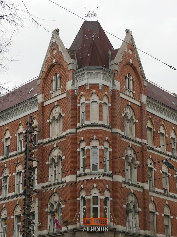 The Erzsébet Boulevard in Budapest